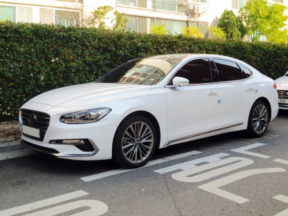 Hyundai Grandeur (IG)